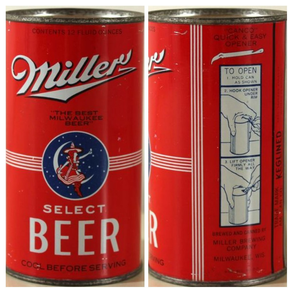 Miller beer can with opening instructions (right photo) from the late 1930s